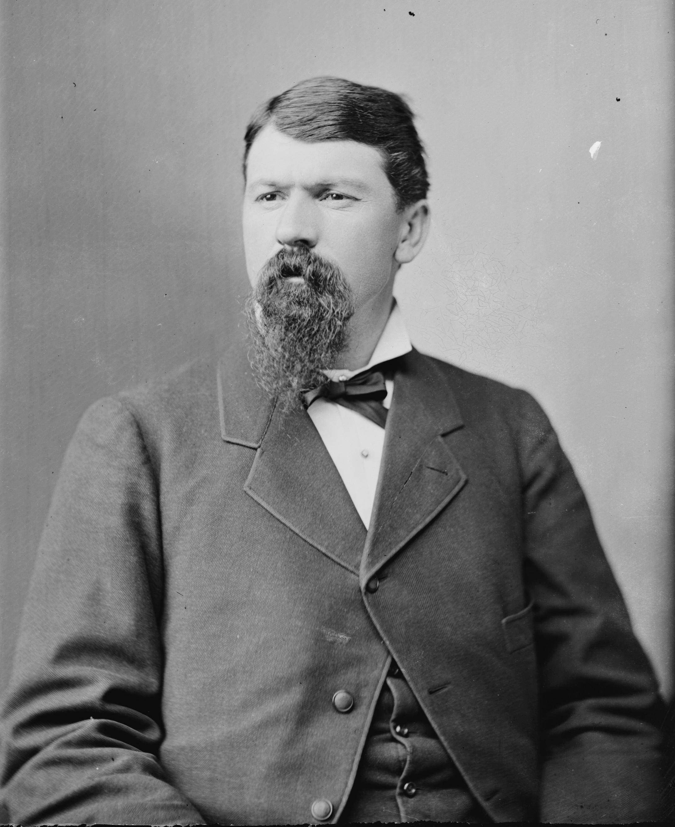 Edward K. Valentine. Library of Congress description: "Valentine, Hon. Edward K. of Nebraska".